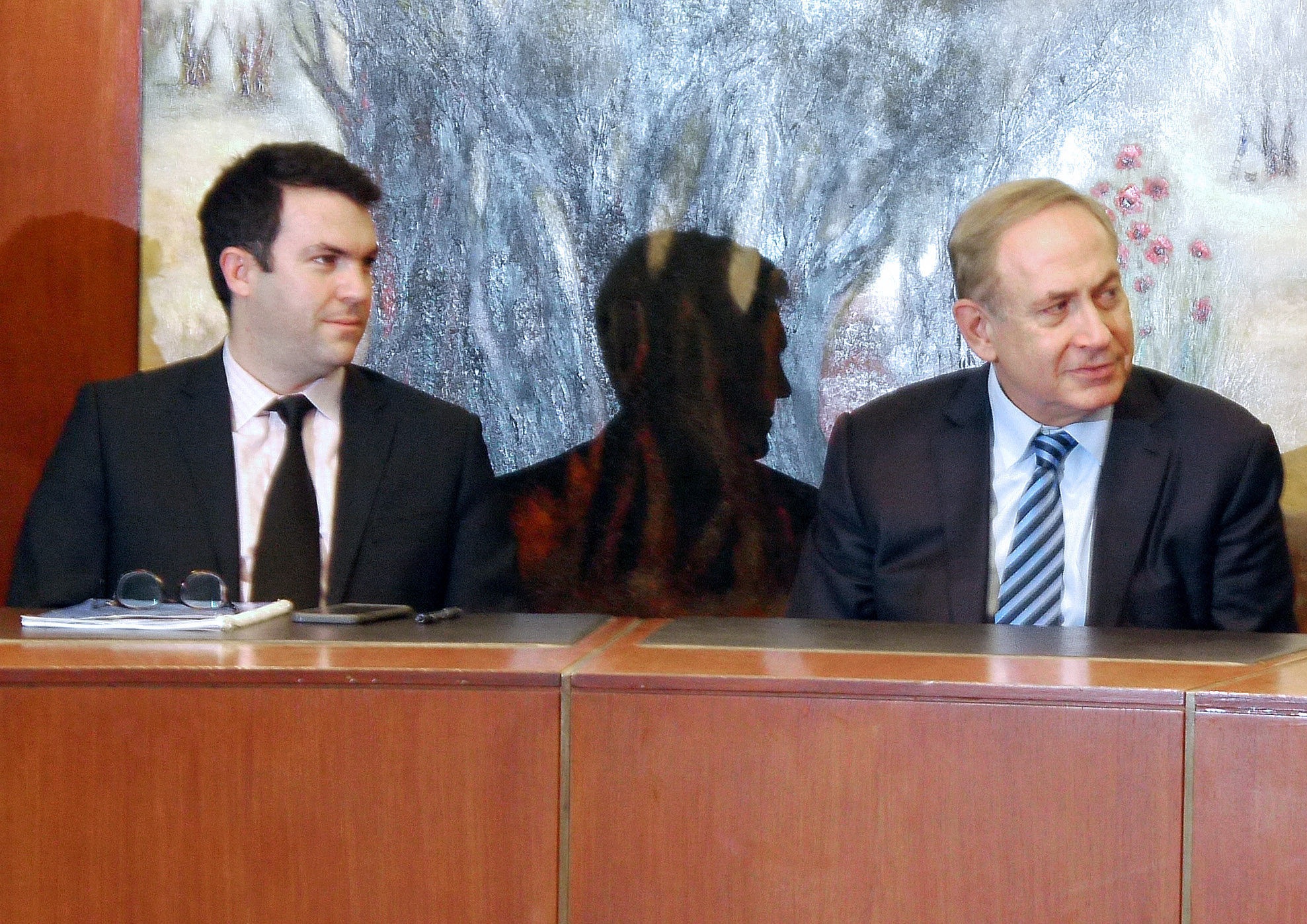 A delegation from the ECR Bureau travelled to Israel for meetings with Benjamin Netanyahu & other leading figures, & to lay a wreath at Yad Vashem.